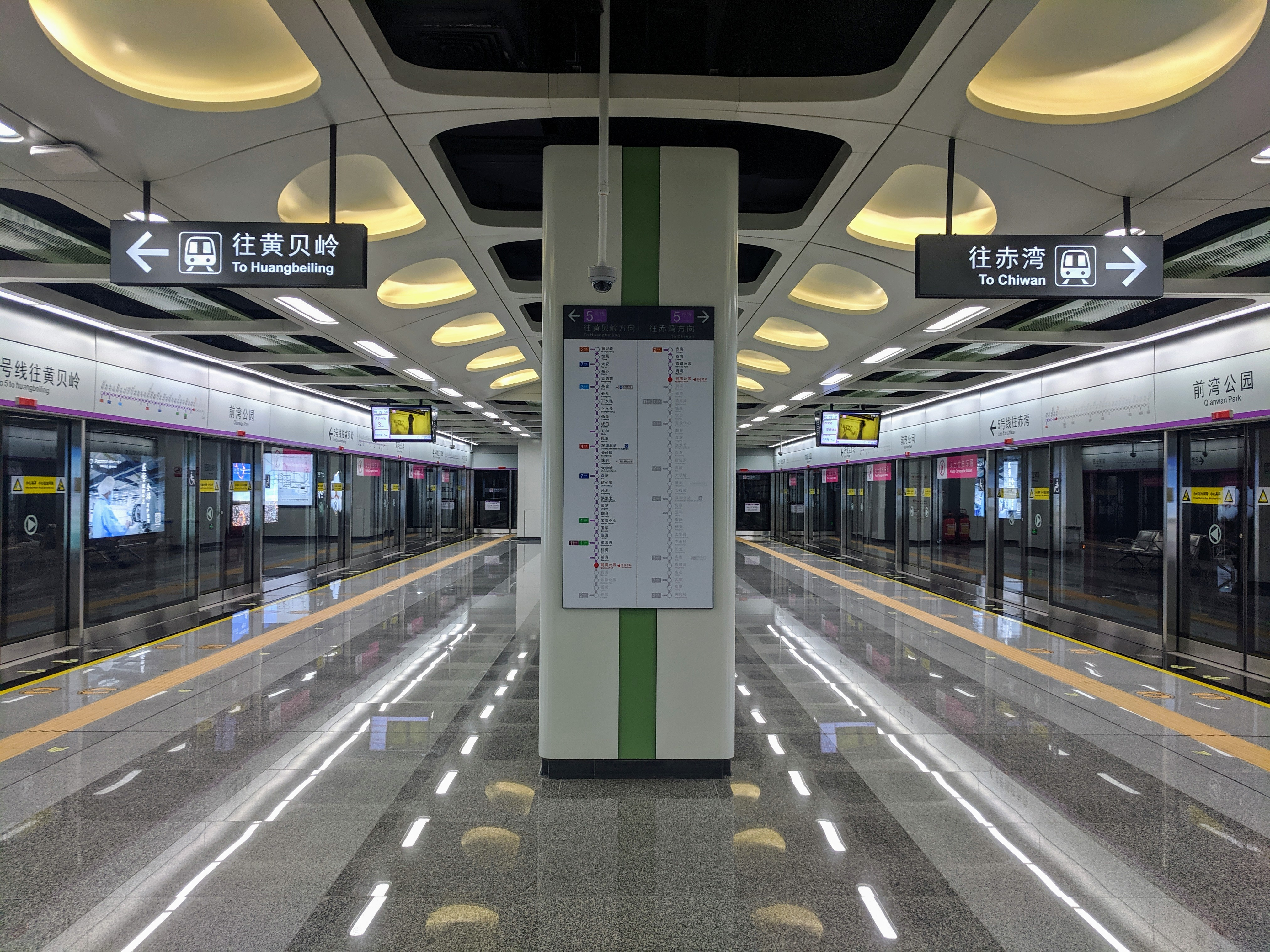 SZMC Line5 Qianwan Park Station Platform